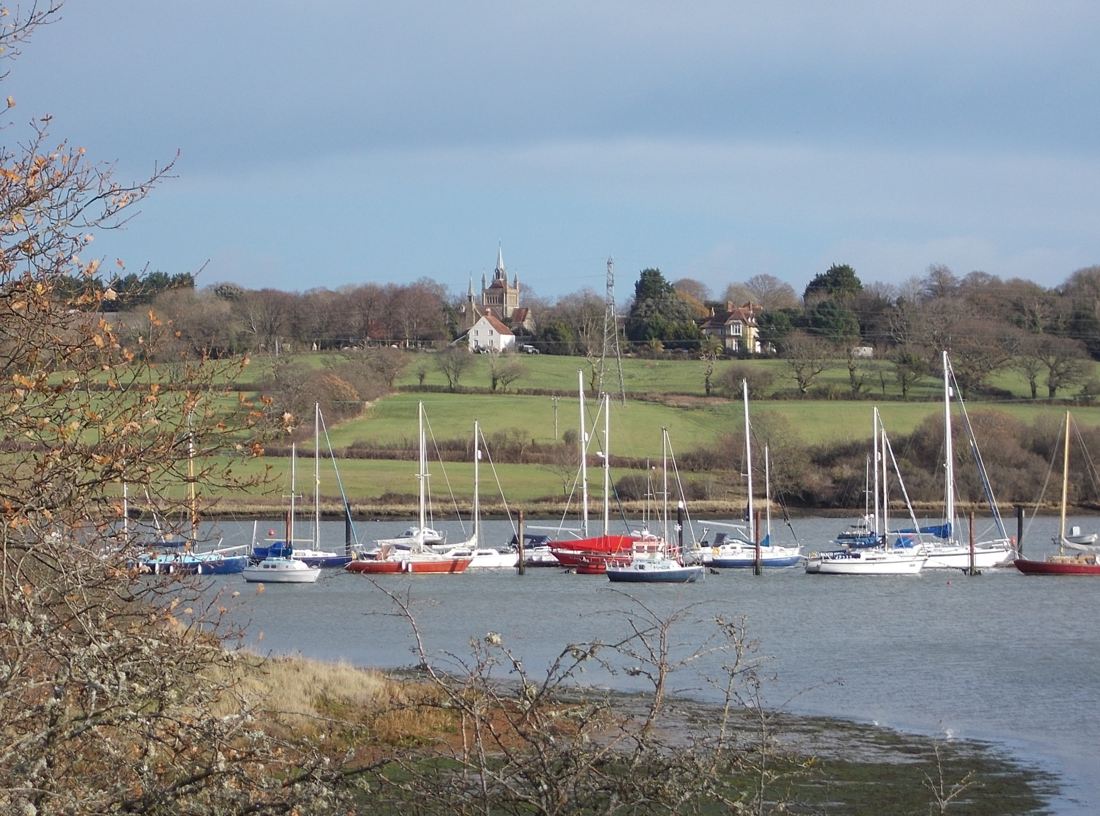 Whippingham Church, Isle of Wight, UK. View of the church looking east across the River Medina.